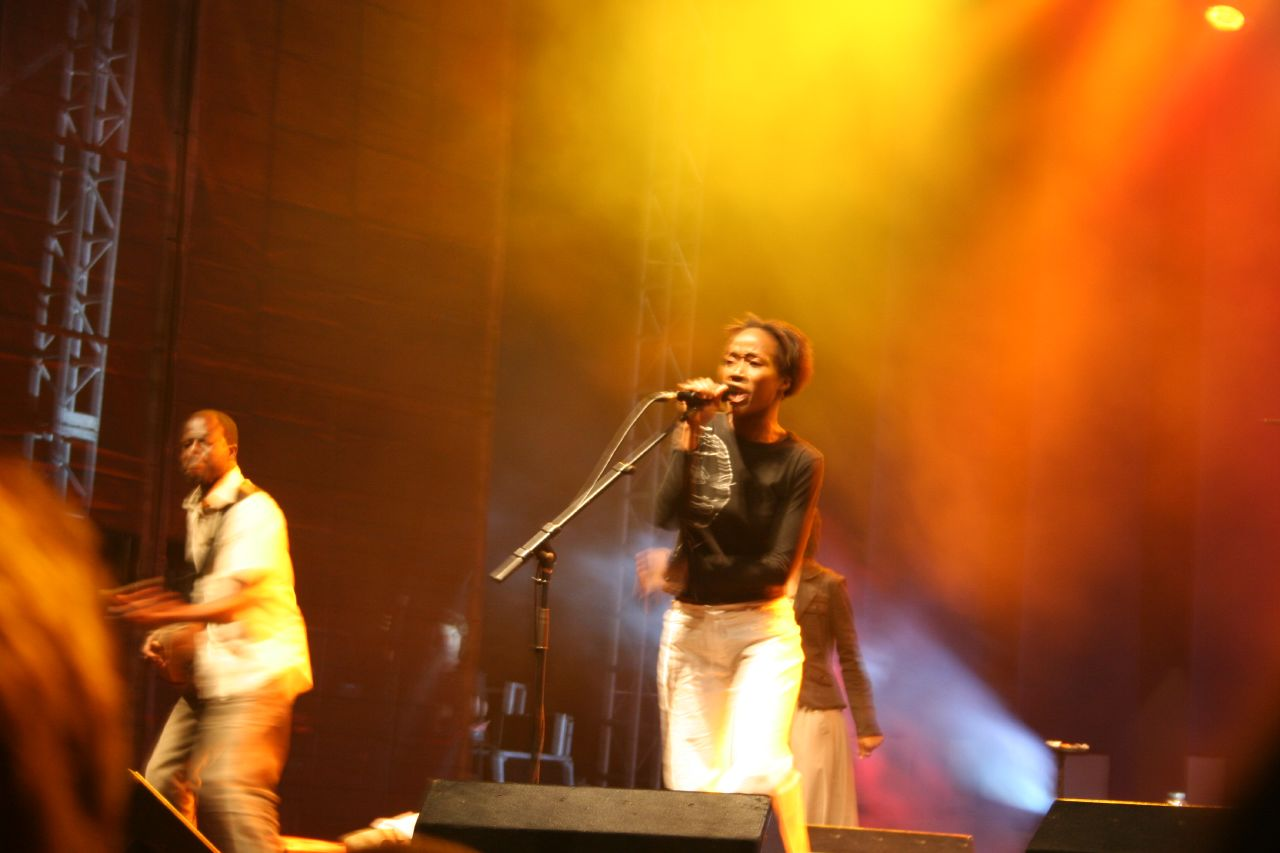 Rokia Traoré in Sines Portugal 2008